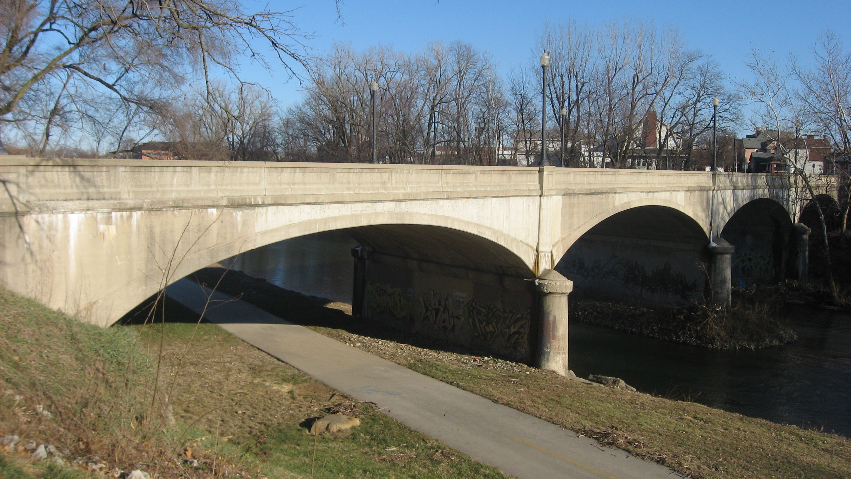 Western side of the West Washington Street Bridge, which carries Washington Street over the White River in Muncie, Indiana, United States. Built in 1930, it is listed on the National Register of Historic Places.